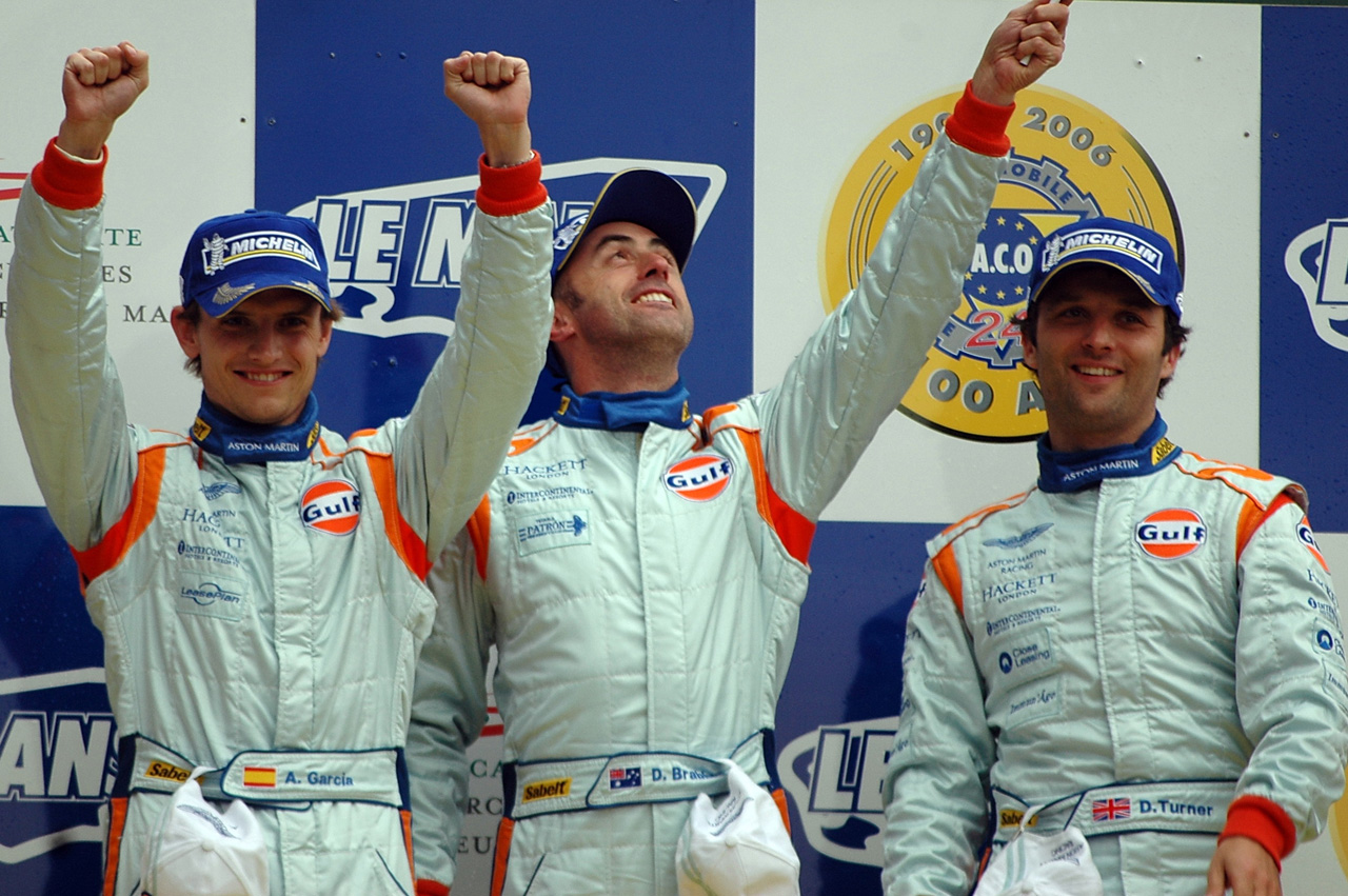 Aston Martin Team wins in 24 Hours of Le Mans 2008